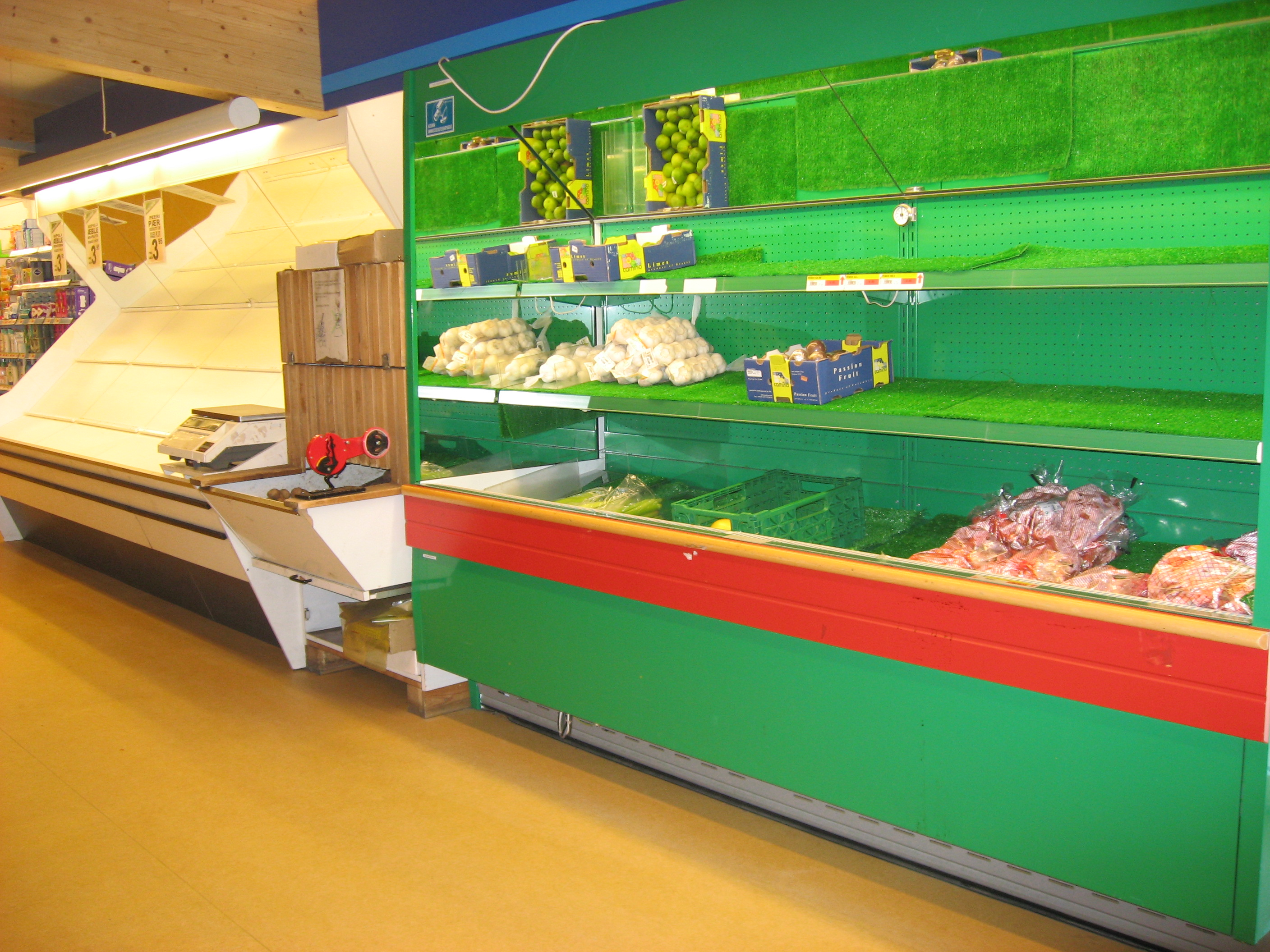 The fruit and vegetable section in the only supermarket in Upernavik, Greenland. The diversity of fresh fruit and vegetables varies greatly during the year. In periods where supplies can be delivered by ship (appr. May-November), the diversity is mostly better than in the winter period, where vegetables and fruit only can be delivered by plane.